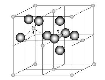 Spineli struktuur